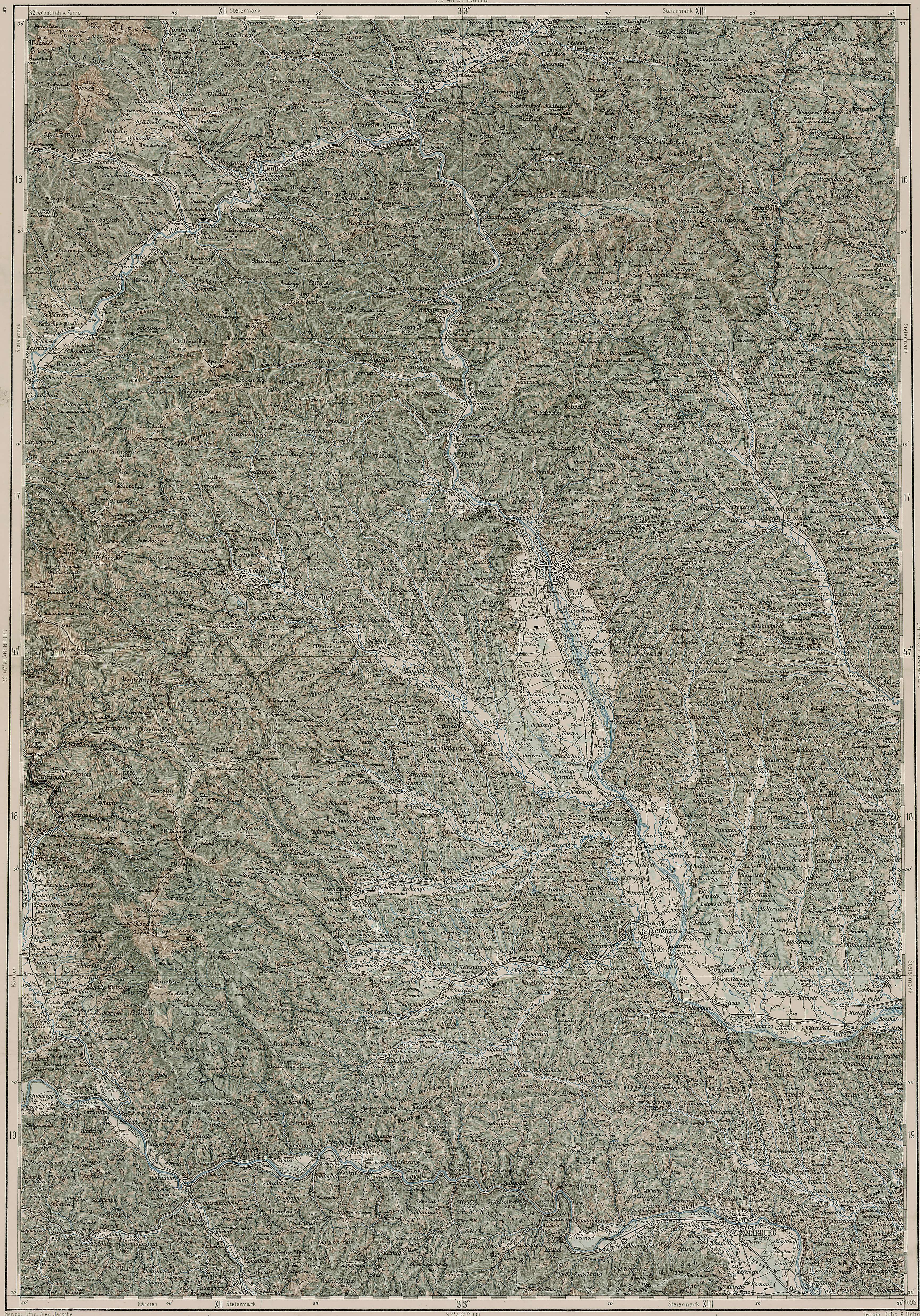 3rd Military Mapping Survey of Austria-Hungary - Graz